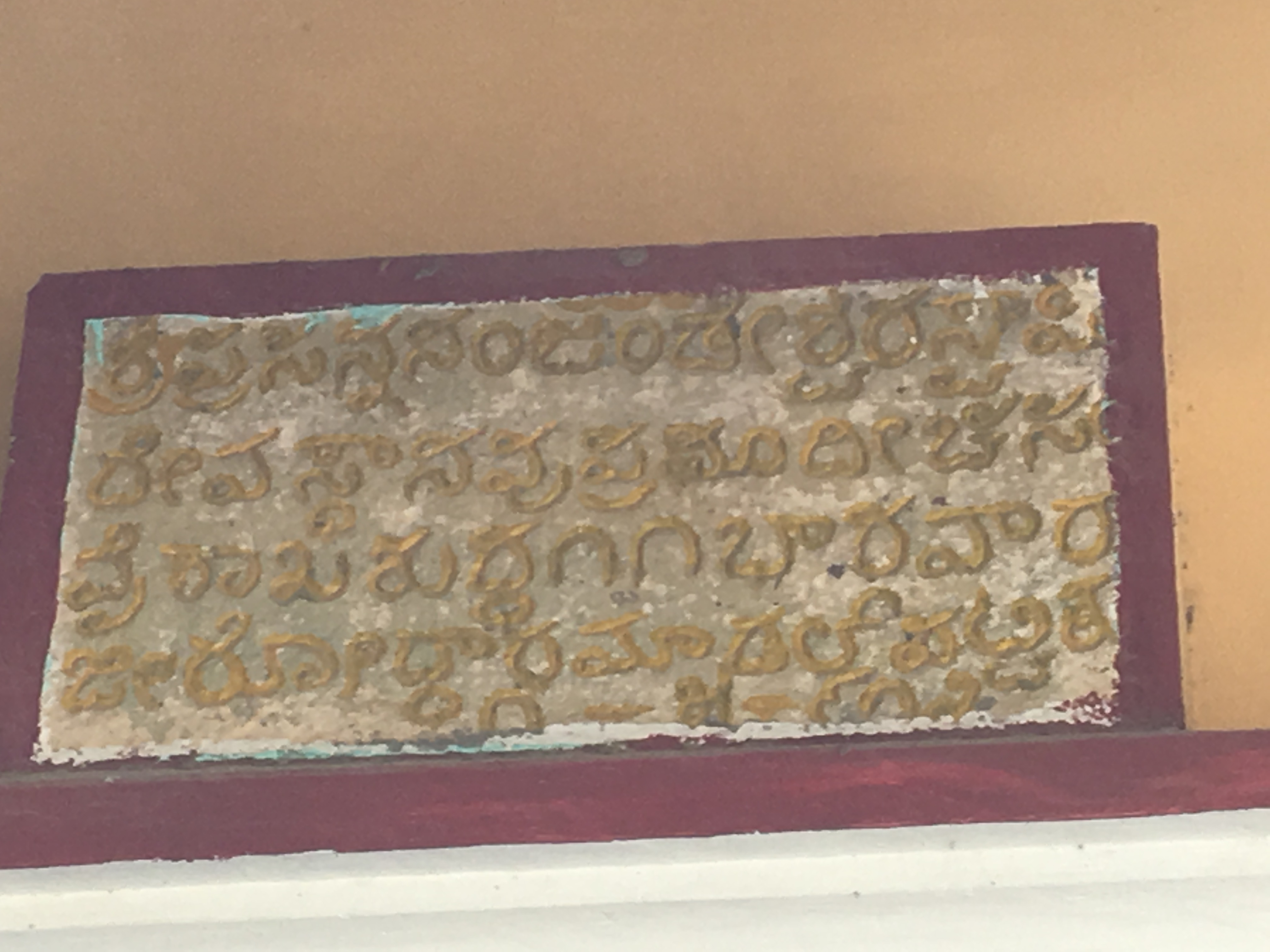 This is the original inscription of removation done in 913 CE.